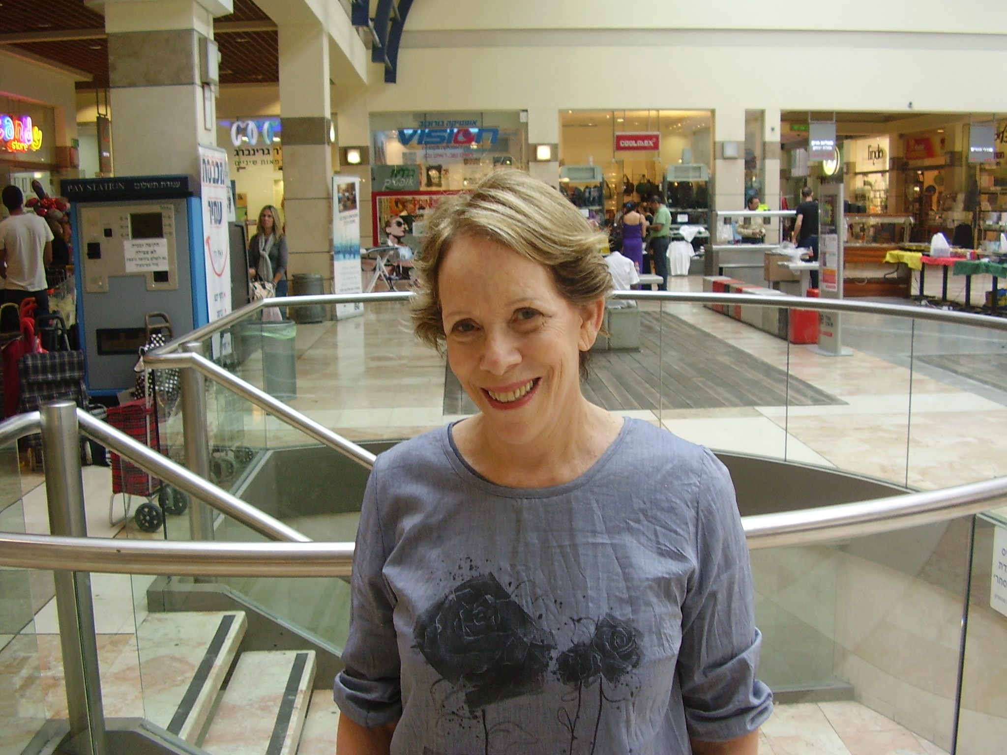 former M.K. naomi blumenthal ח"כ לשעבר נעמי בלומנטל